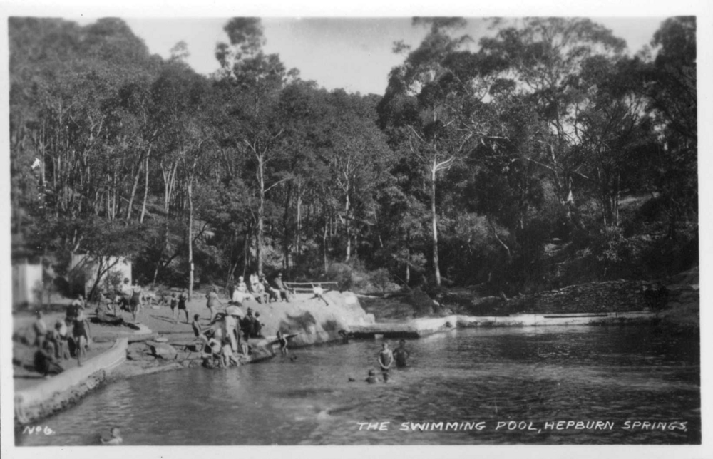 "THE SWIMMING POOL, HEPBURN SPRINGS" Image of Hepburn Pool, taken in ca 1938.